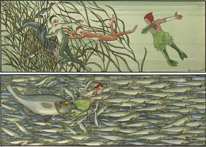 Artus Scheiner for Kulihrásek v hlubinach morskych / Kulihrasek in the Depths of the Sea (1932)